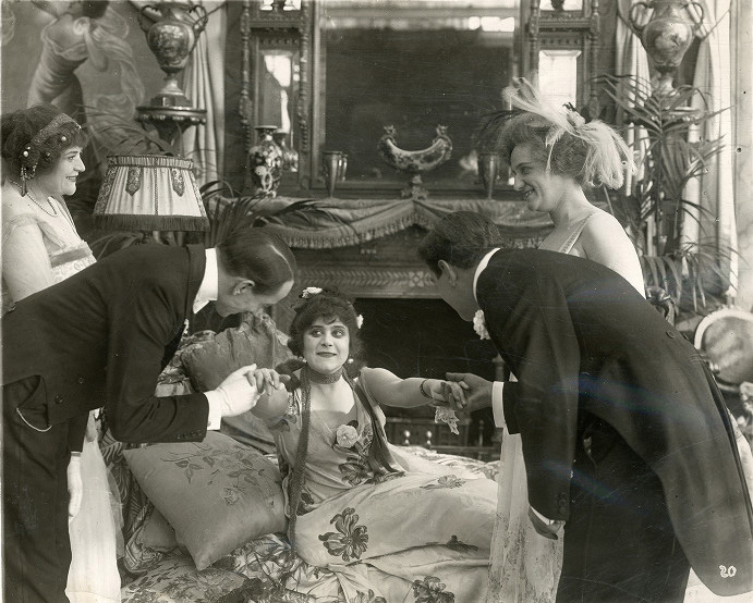 Promotional picture from the film Camille (1917) with Theda Bara.